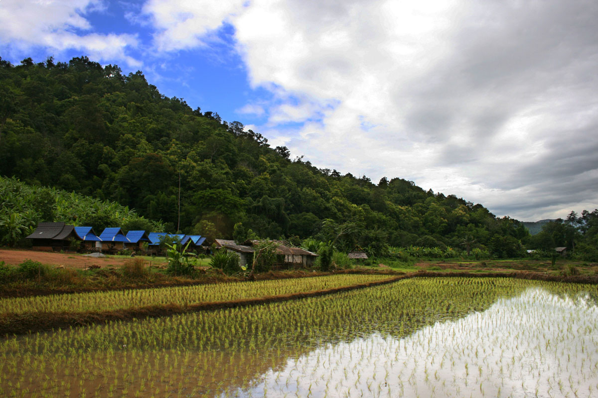 Rice plantation in Thailand, southwest of Chiang Mai